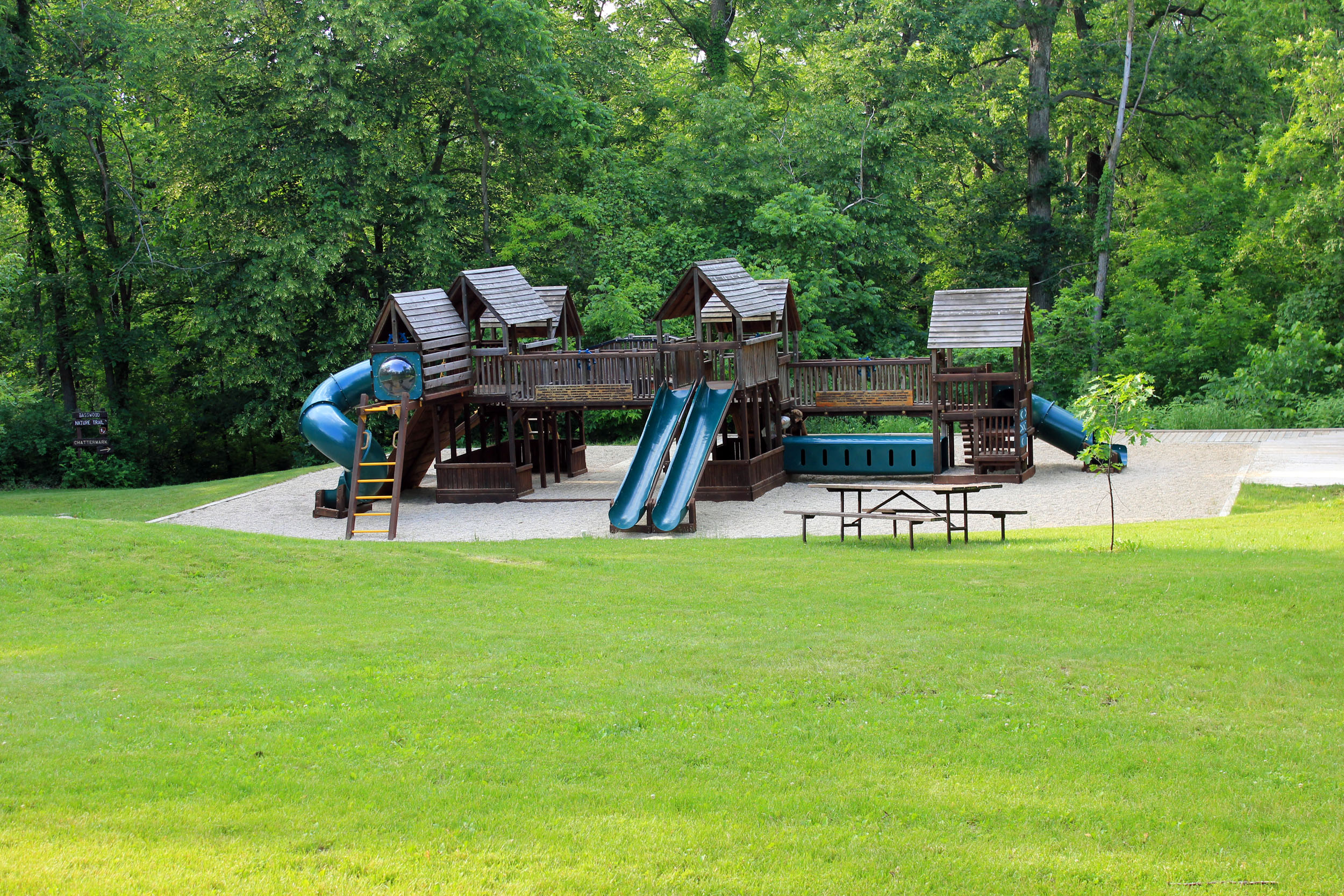 Playground at New Glarus Woods State Park